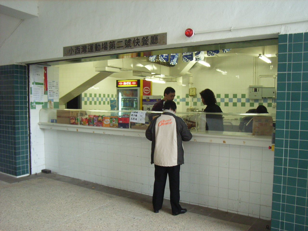 小西灣運動場, Siu Sai Wan Sports Ground Author= User:BLUEAST